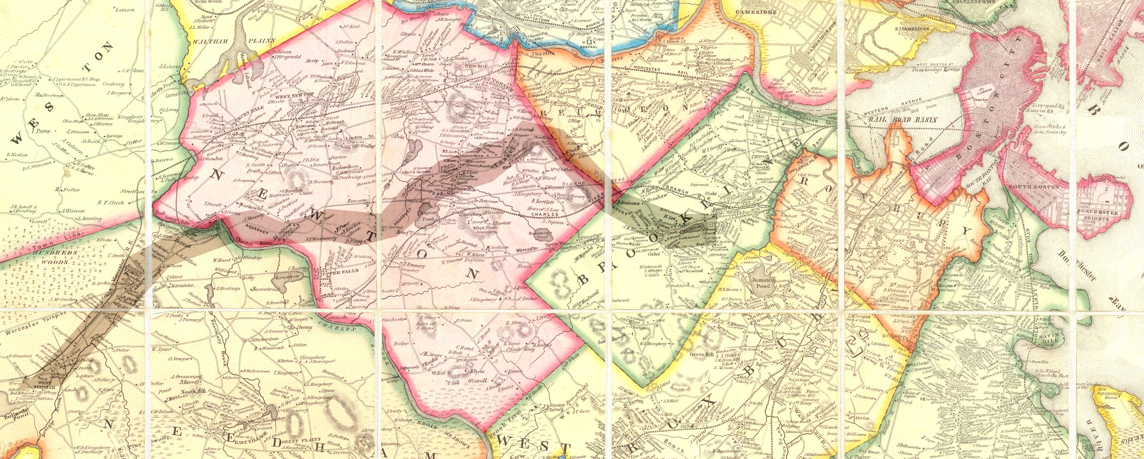 Map of the Cochituate Aqueduct, west of Boston, Massachusetts, 1852. This appears to be only a partial map, as it does not extend all the way to Lake Cochituate at the west, which was the aqueduct's source. However, this is the majority of the aqueduct's route, and mapped only 4 years after its completion in 1848.